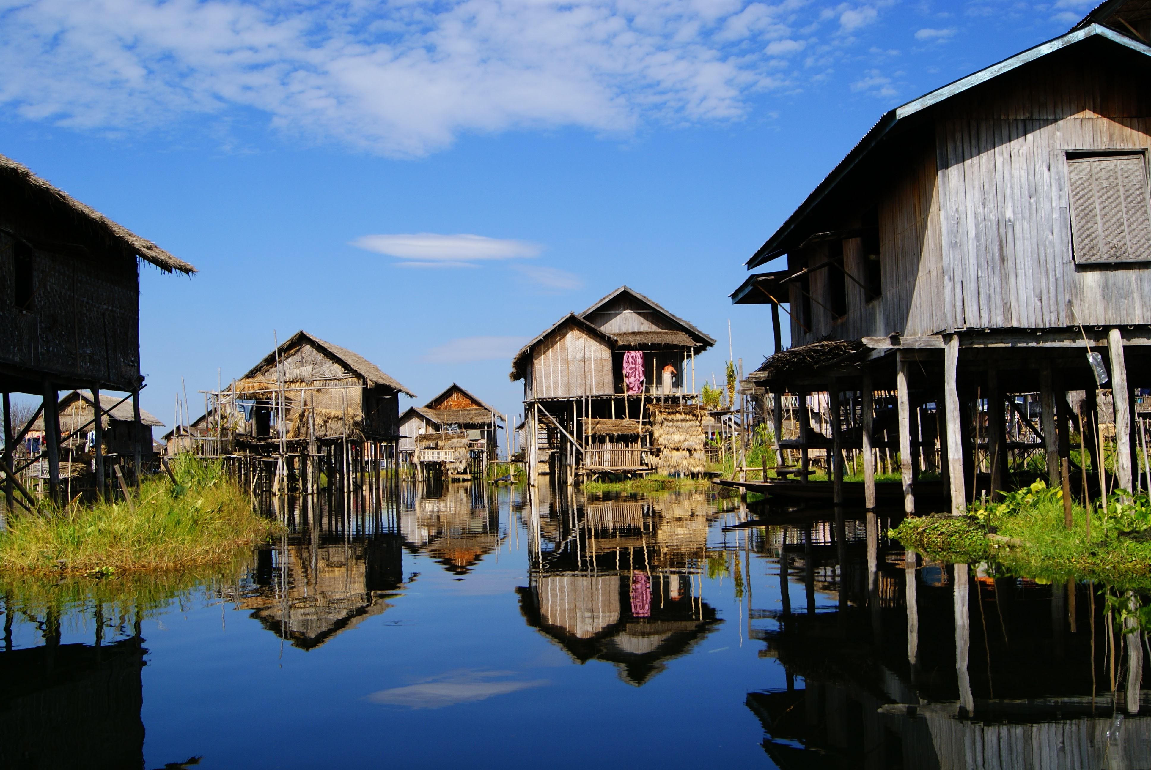 City of Yawnghwe in the Inle Lake (Heho, Burma)